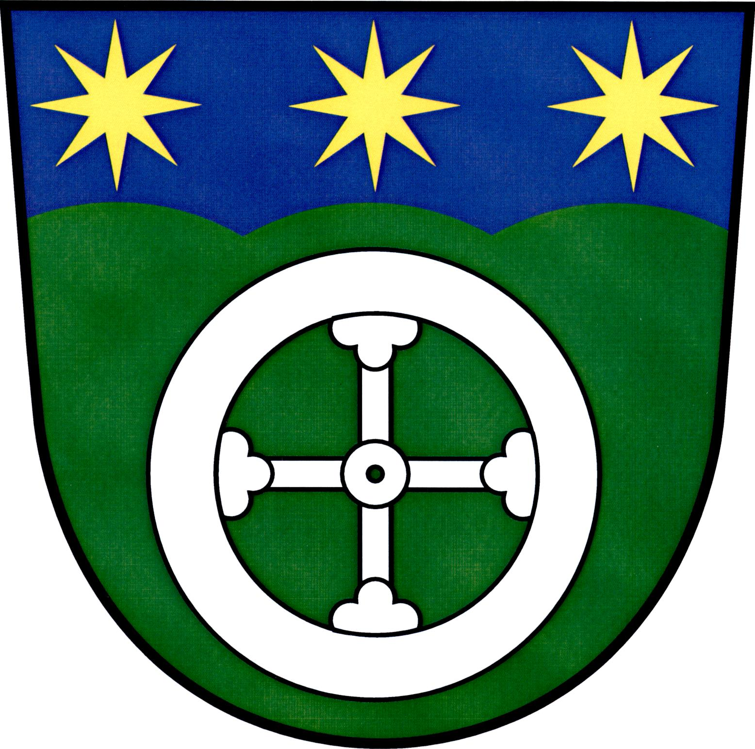 Coat of arms of Sobětuchy, Chrudim District This coat of arms image could be recreated using vector graphics as an SVG file. This has several advantages; see Commons:Media for cleanup for more information. If an SVG form of this image is available, please upload it and afterwards replace this template with vector version available|new image name . This image was uploaded in the JPEG format even though it consists of non-photographic data. This information could be stored more efficiently or accurately in the PNG or SVG format. If possible, please upload a PNG or SVG version of this image without compression artifacts, derived from a non-JPEG source (or with existing artifacts removed). After doing so, please tag the JPEG version with Superseded|NewImage.ext and remove this tag. This tag should not be applied to photographs or scans. For more information, see BadJPEG . Summary